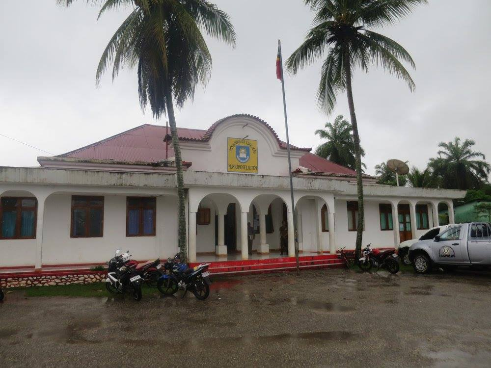 Ministry of education building in Lospalos